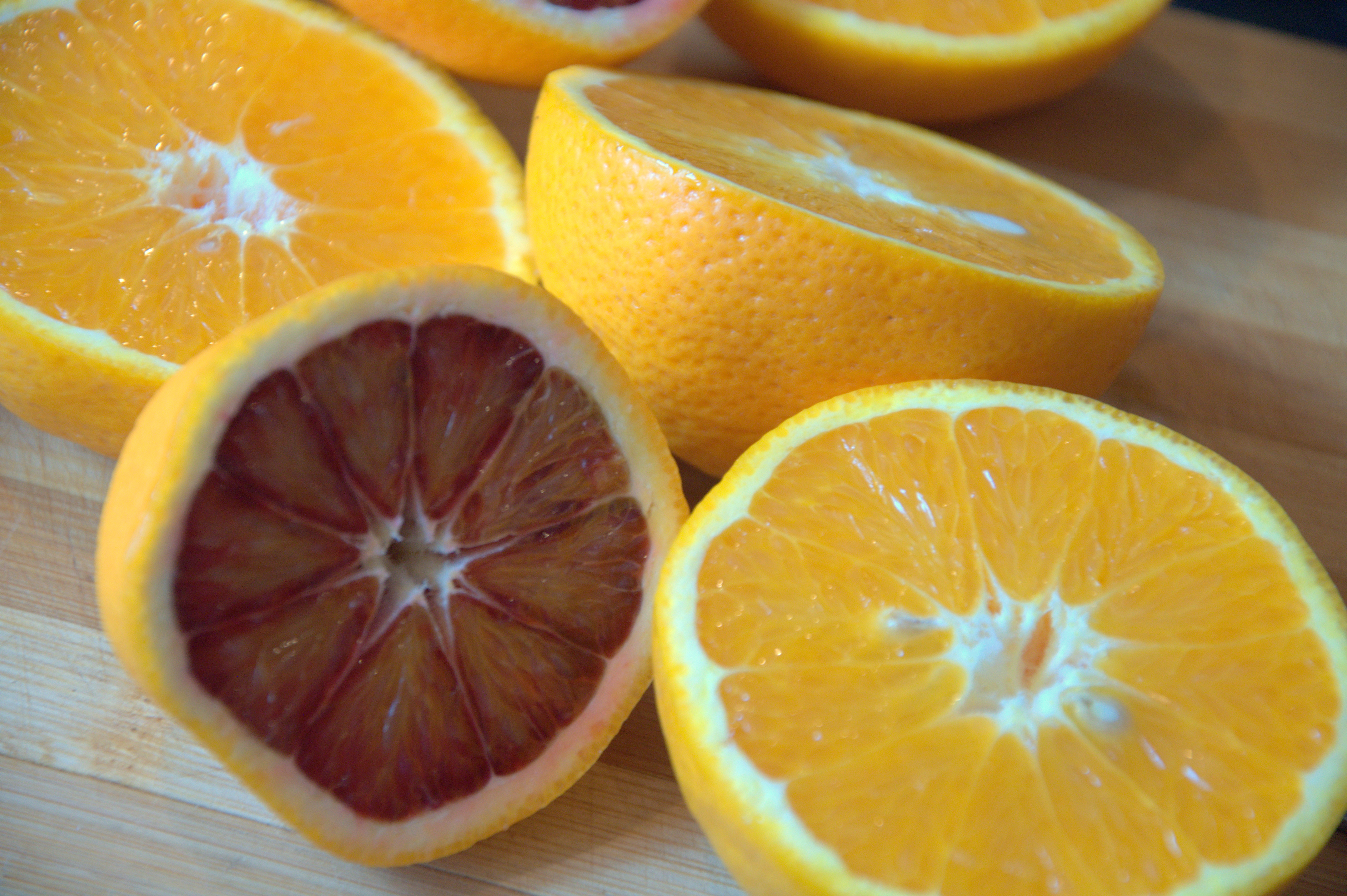 Cross-cut oranges and blood oranges